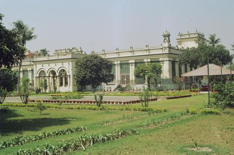 This is a file picture of the Navaratan Palace in Champanagar